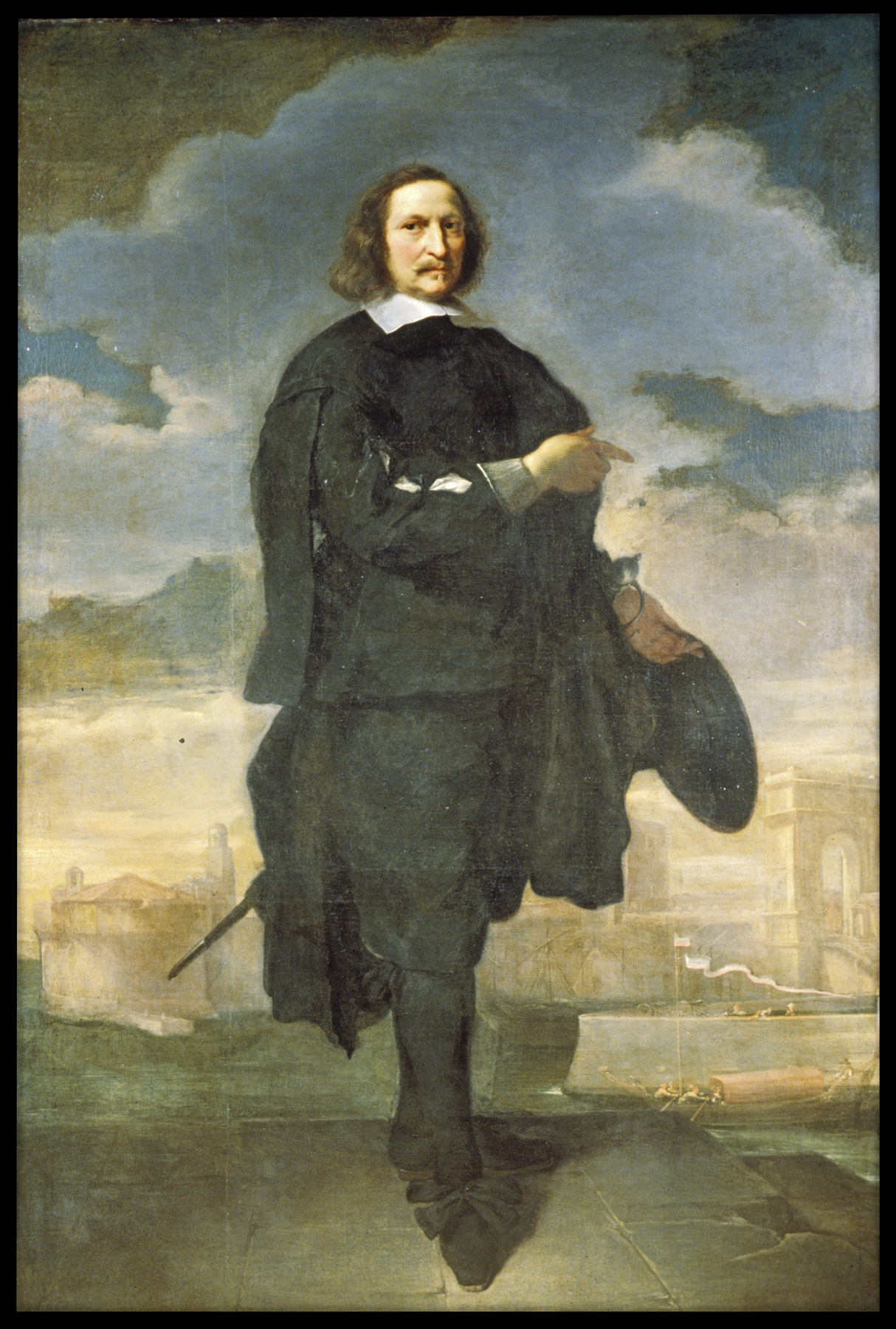 The commanding view of the port of Ancona, Italy, as a backdrop for this imposing full-length portrait, suggests that this gentleman is a nobleman or possibly a wealthy merchant or official of that city. His elegant but assertive stance with his left hand on his hip, as well as his wife's bejeweled attire in the companion portrait (Walters 37.654), further convey his status. Such paintings were typically commissioned for one of the grand reception rooms of a lavish residence where the owners would greet their visitors. Luigi Primo (also known as Louis Cousin), was one of the many Flemish painters who sought the patronage of wealthy Italians. Flemish artists were thought to be skilled at imitating reality and were therefore in demand as portraitists.